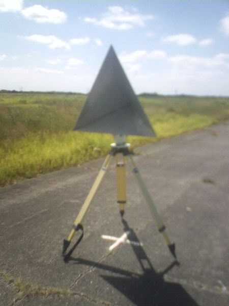 Triangle 1